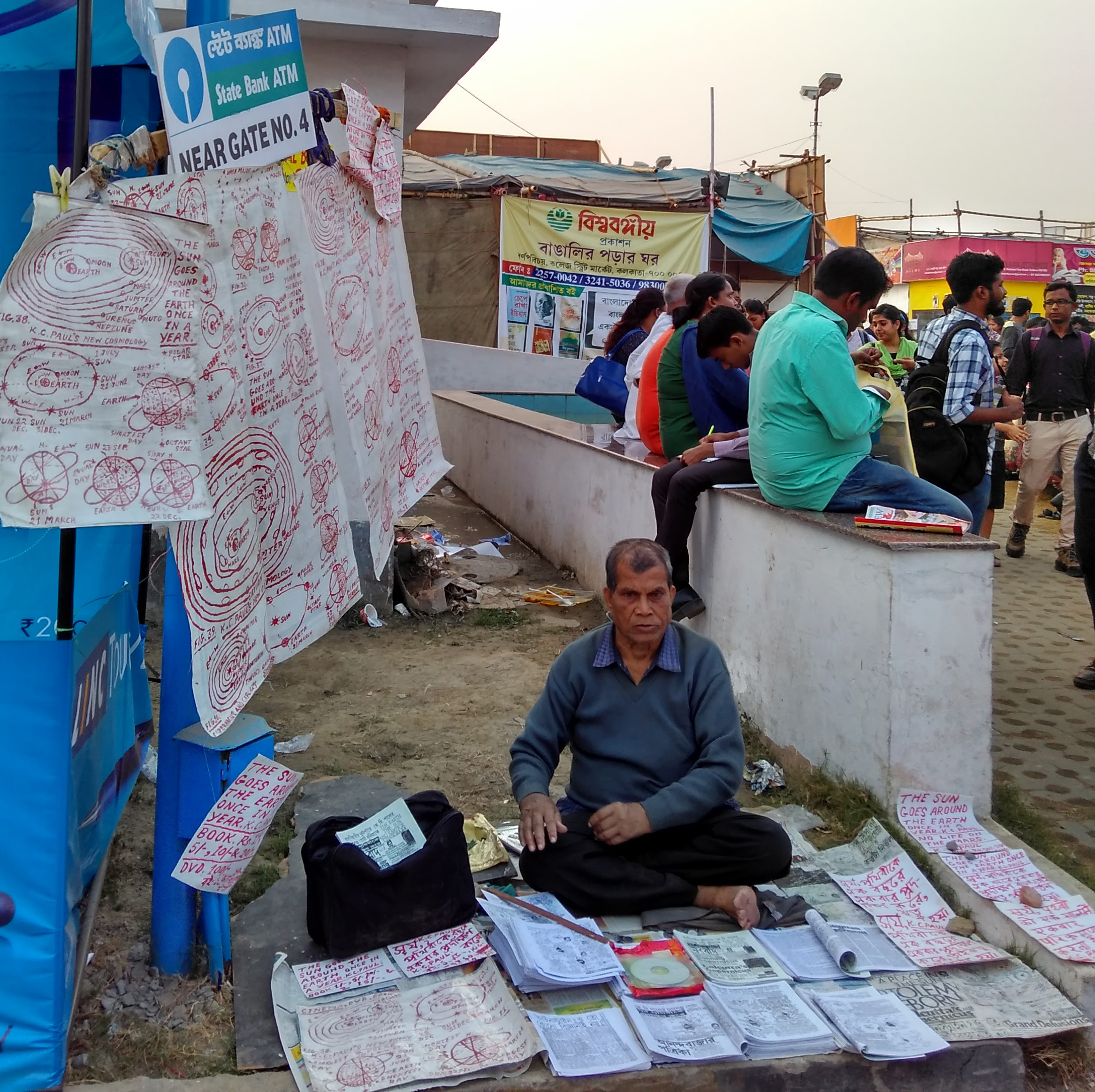 Kartik Chandra Paul (K.C. Paul) selling his books at 2016 Kolkata International Book Fair